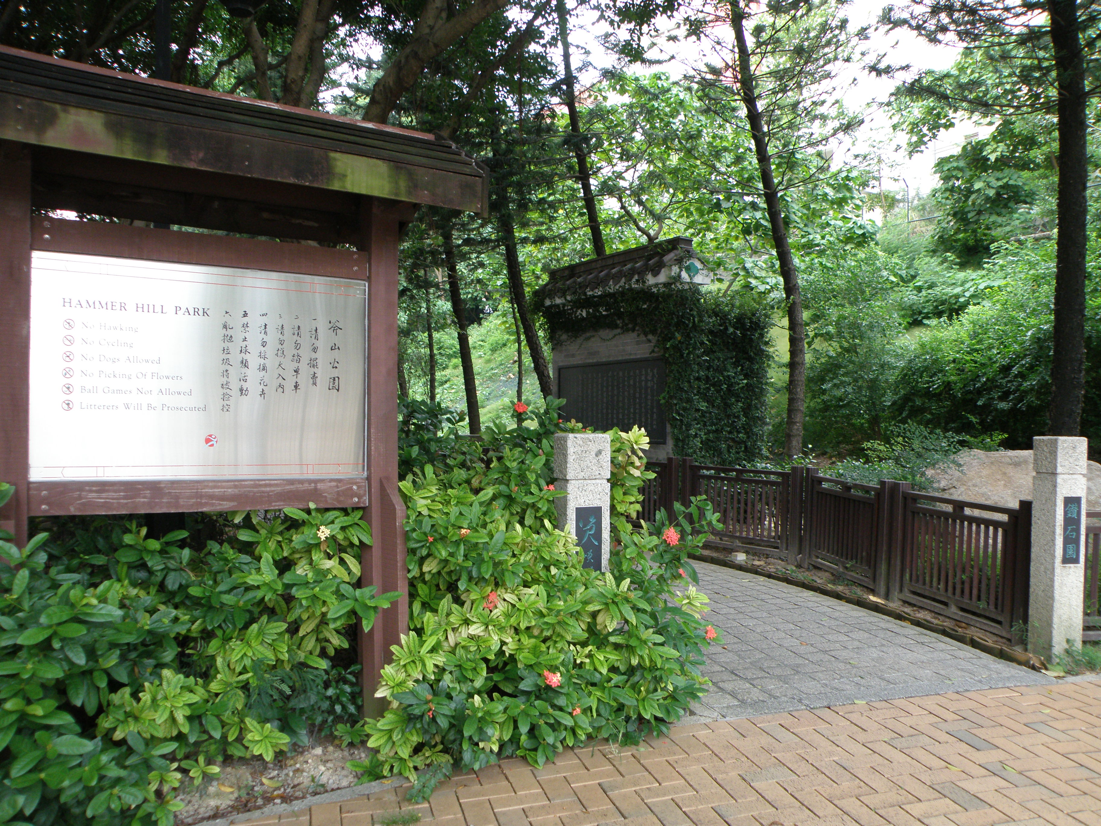 Hammer Hill Park in Diamond Hill, Hong Kong.